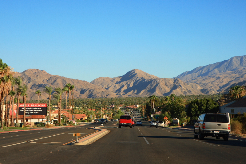 Panoramic view of Cathedral City and Palm Desert as seen from California State Route 111 (Palm Canyon Drive) east of Palm Springs, California.